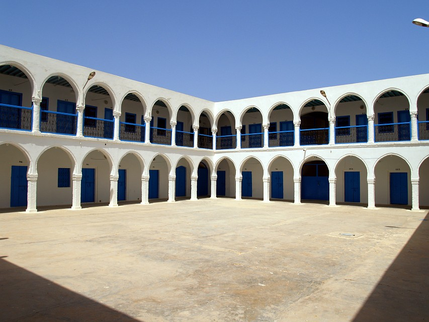 El Ghriba Synagogue